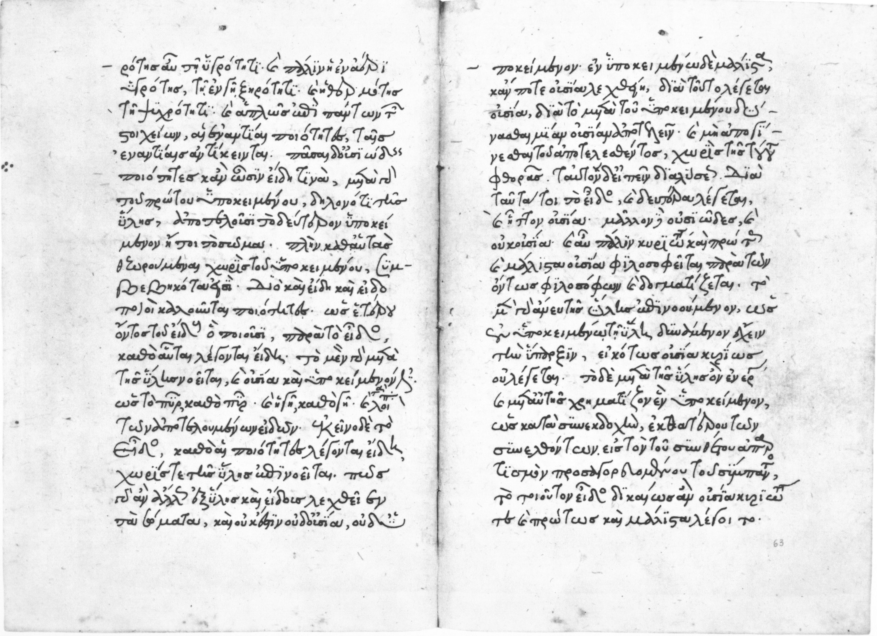 Nikephoros Blemmydes, Epitome physica, in ms. Florence, Biblioteca Medicea Laurenziana, Plut. 86,31, fol. 62v–63r.